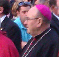 Manuel Ureña Pastor, Archbishop of Zaragoza